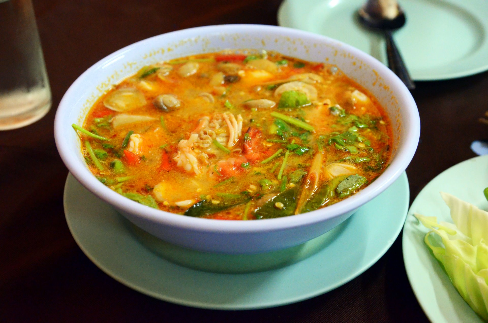 Tom yam kung nam khon (Thai script: ต้มยำกุ้งน้ำข้น) is a variation on the standard tom yam kung (prawn tom yam) in that it contains a dash of coconut milk (nam khon which literally means "condensed/thick liquid"). The prawns used in this tom yam, are kung maenam, large river prawns. Image made at an Isan karaoke bar/restaurant in Bangkok.